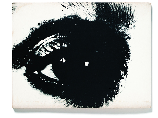 Artwrok: Auto-Photo by Gretta Sarfaty